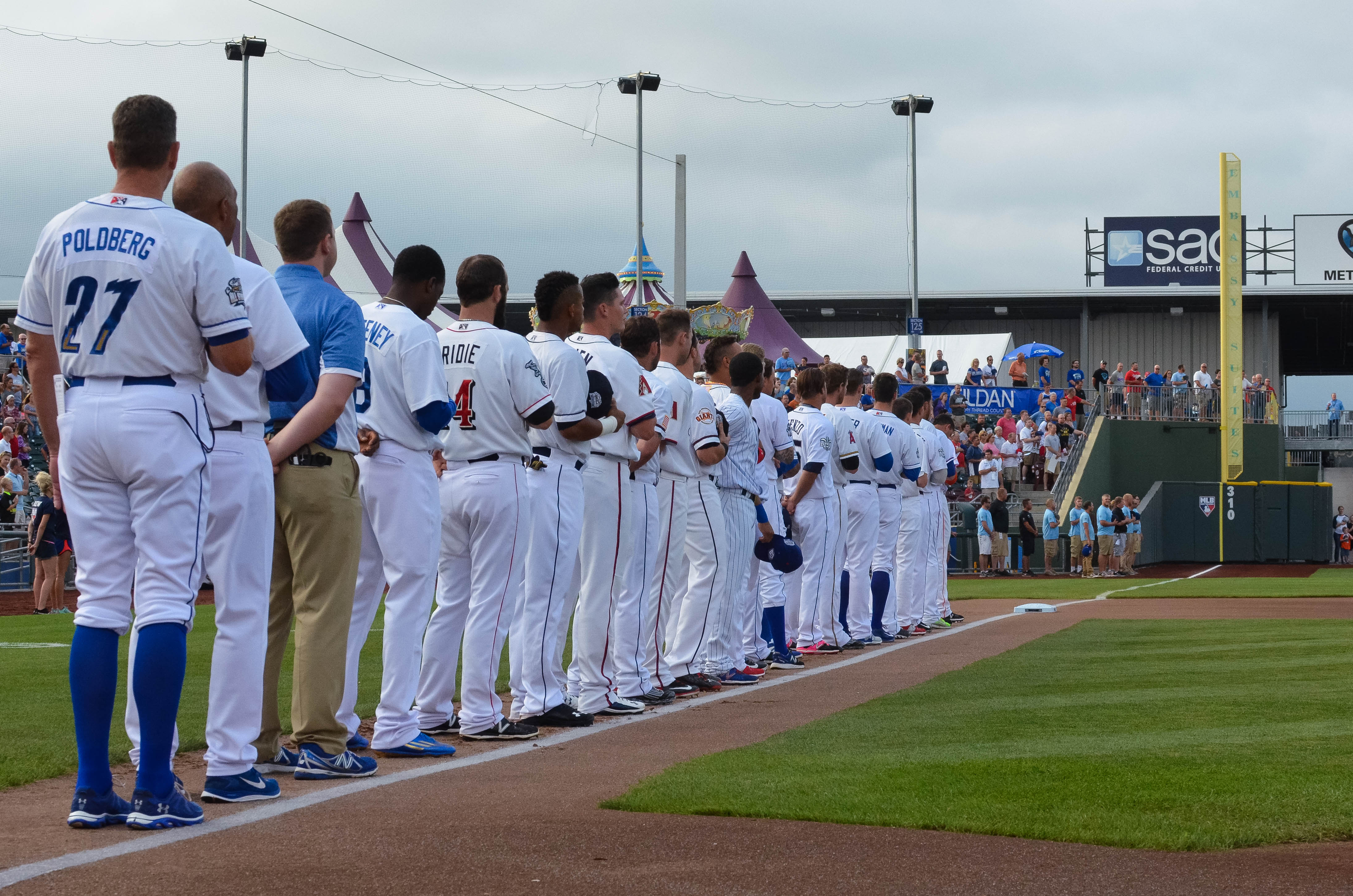 Minda Haas | 2015 USAGE INSTRUCTIONS: You are welcome to share or publish to your own site or social media account, but you MUST credit me, Minda Haas, or by my Twitter handle (@minda33) or Instagram (minda.haas).